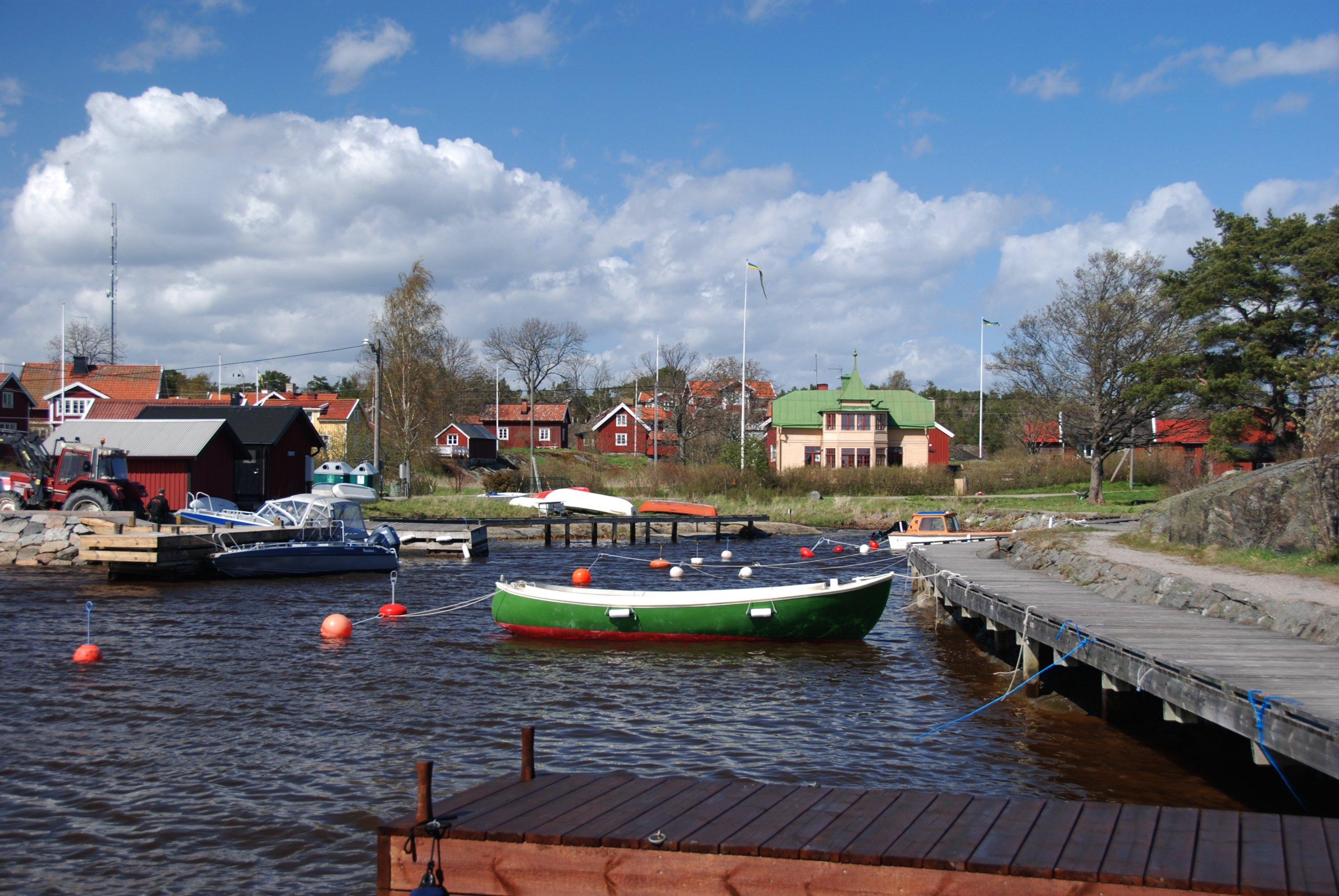 The harbor at Löka, Möja island, Stockholm archipelago